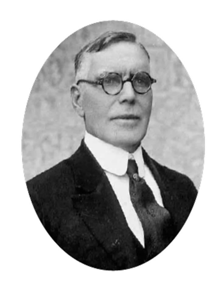 Photo of Joseph Wilford Booth